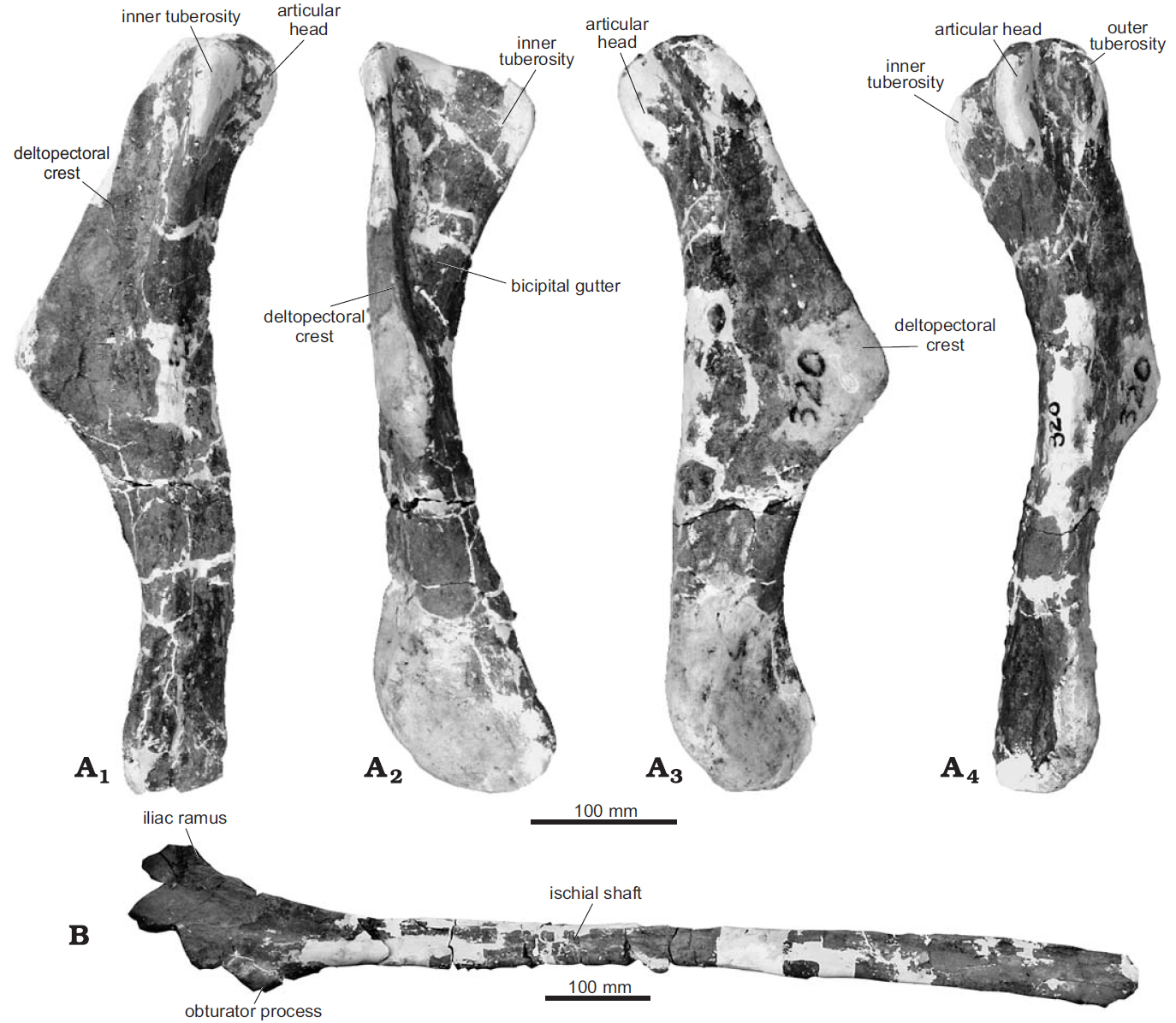 The hadrosaurid dinosaur Wulagasaurus dongi gen et sp. nov. from the Upper Cretaceous Yuliangze Formation at the Wulaga quarry, China. A. GMH W320, right humerus in medial (A1), cranial (A2), lateral (A3), and caudal (A4) views. B. GMH W398−A, ?left ischium in ?lateral view.